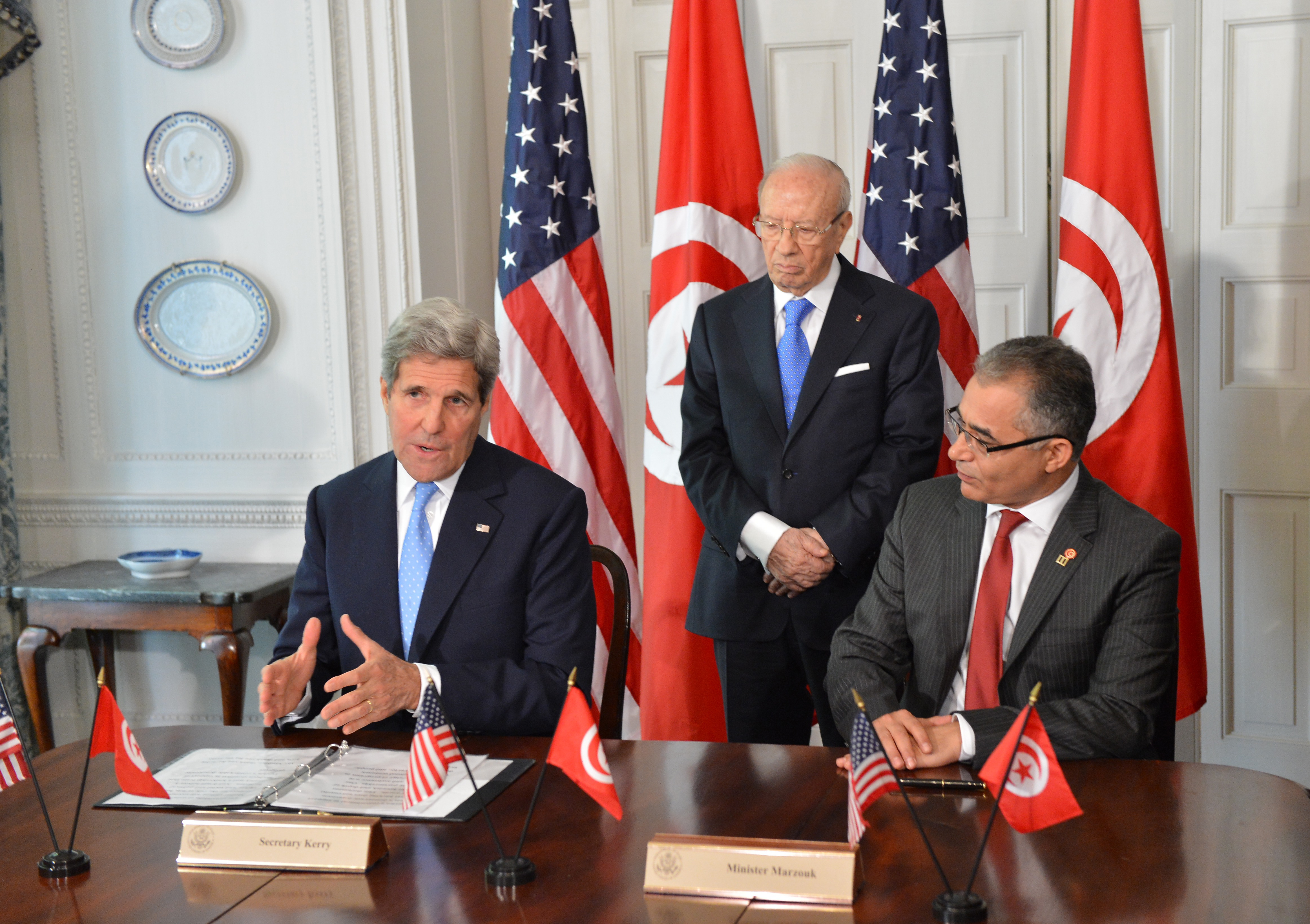 U.S. Secretary of State signs Memorandum of Understanding with Tunisian Minister for Political Affairs Mohsen Marzouk while Tunisian President Beji Caid Essebsi looks on at the Blair House in Washington, DC on May 20, 2015. [State Department Photo/Public Domain]